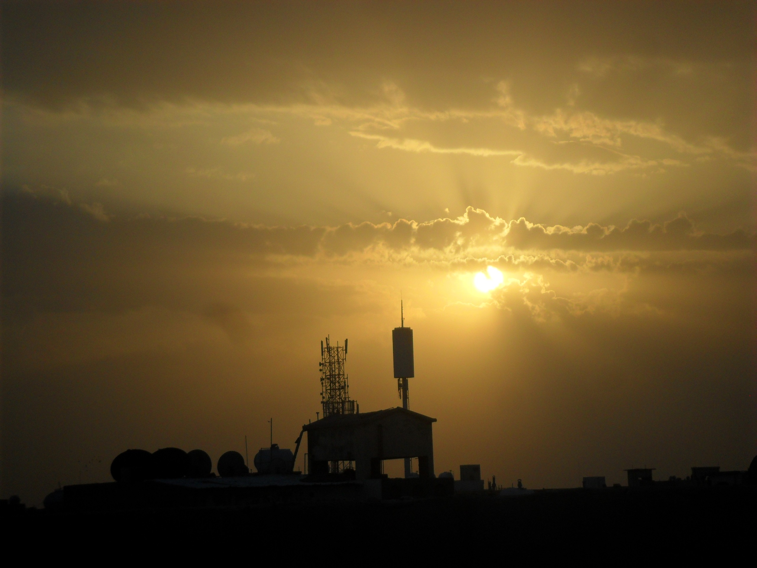 Riyadh city during sunset